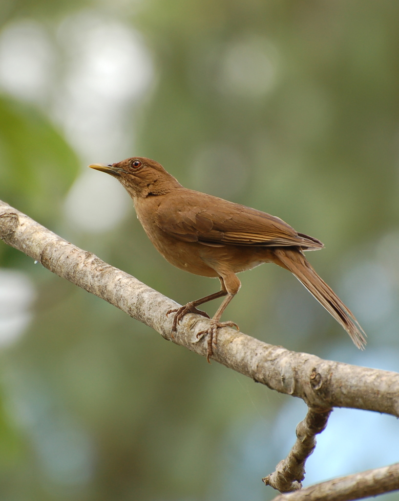 A Clay-colored Thrush in Garita, Alajuela, Costa Rica.